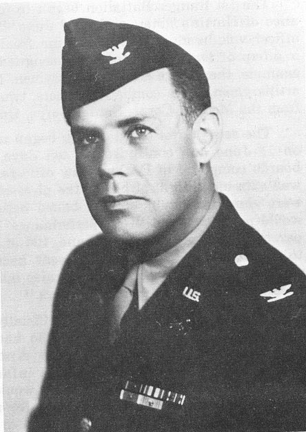 Picture of William Darby from License: Information presented on the CGSC web site is considered public information and may be distributed or copied. Use of appropriate byline/photo/image credits is requested.